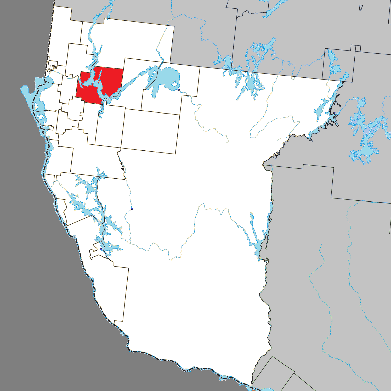 Location of Angliers, Quebec within Témiscamingue Regional County Municipality.